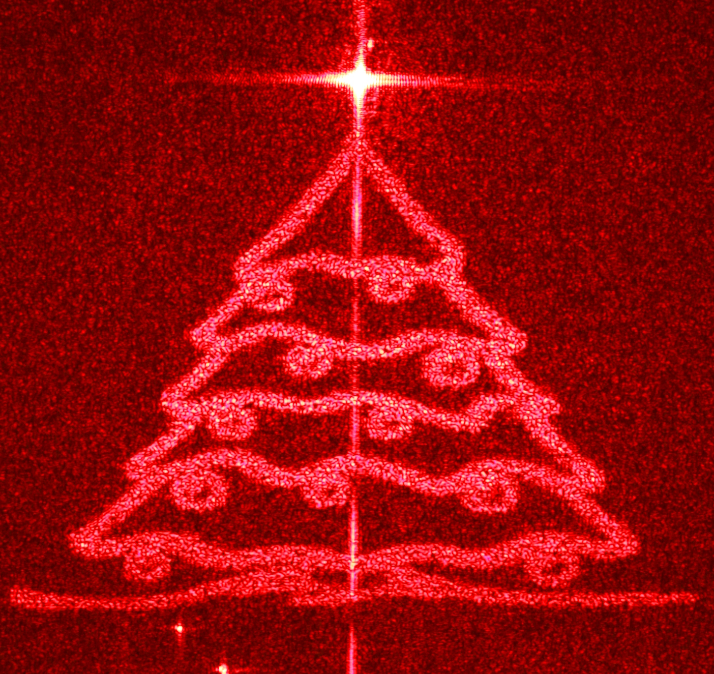 This is a Fourier hologram generated using the Gerschberg-Saxton algorithm. It was displayed as an amplitude hologram on a Twisted Nematic Spatial Light Modulator, viewed with an f=25cm lens. The zero-order diffraction peak has been artistically utilised as the 'star' at the top of the Christmas tree.